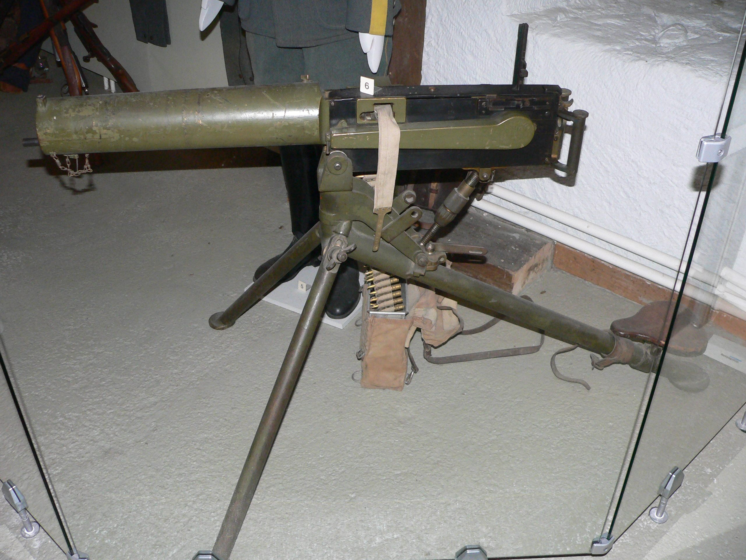 Machine gun, museum of Morges castel, Switzerland